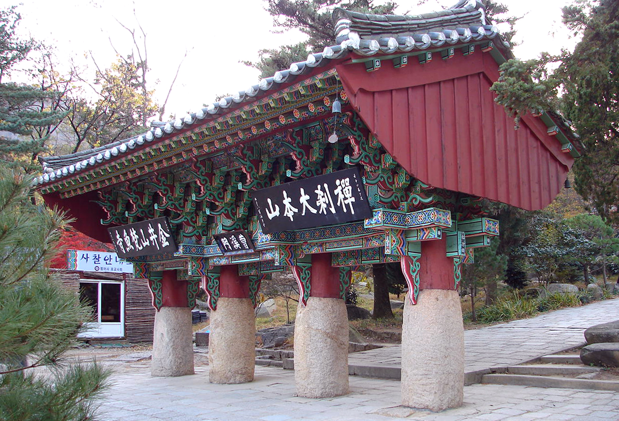 Beomeosa Iljumun or One Pillar Gate is the first gate, called this because when the gate viewed from the side it appears to be supported by a single pillar. This symbolizes the one true path of enlightenment which supports the world.